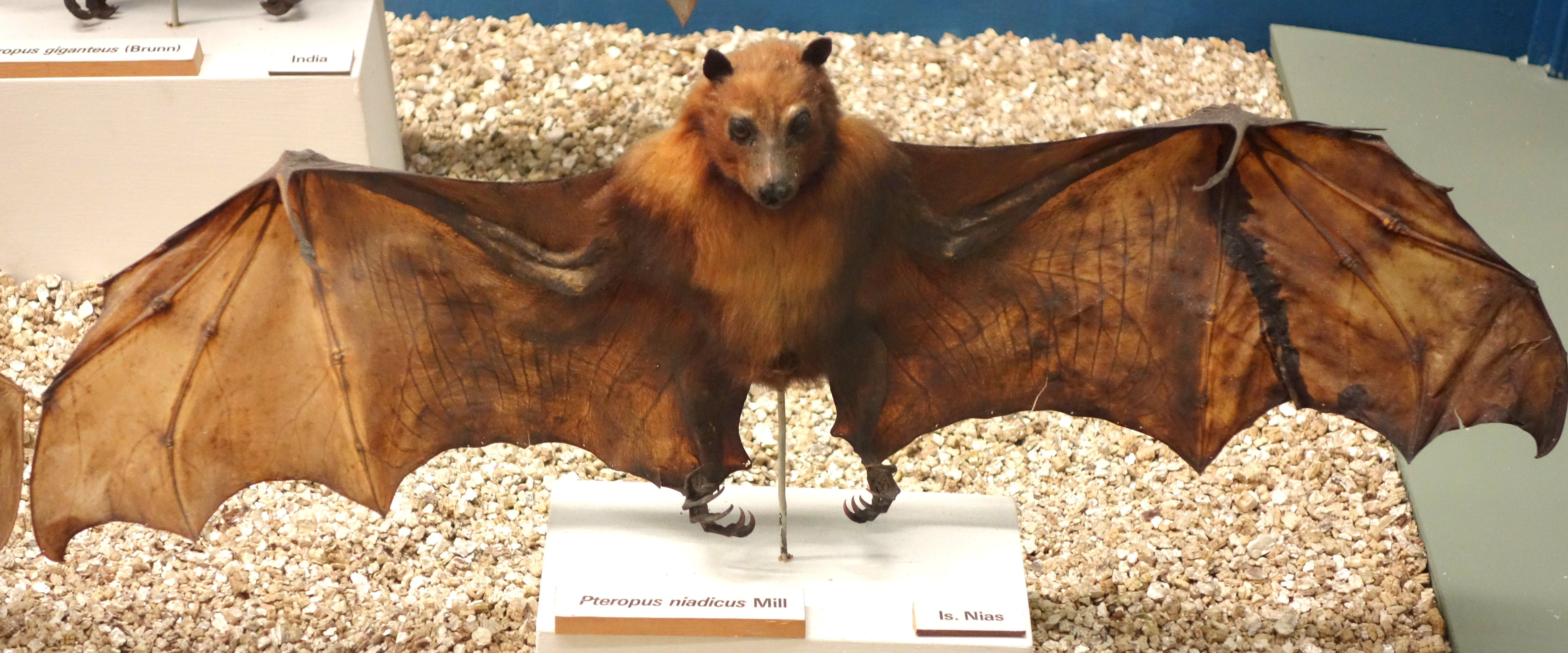 Exhibit in the Museo Civico di Storia Naturale di Genova, Via Brigata Liguria, 9, 16121, Genoa, Italy.